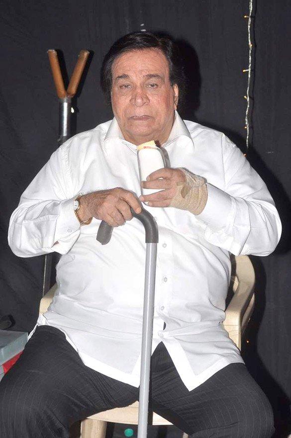 Kader Khan, famous Indian Bollywood actor of Afghan origin.